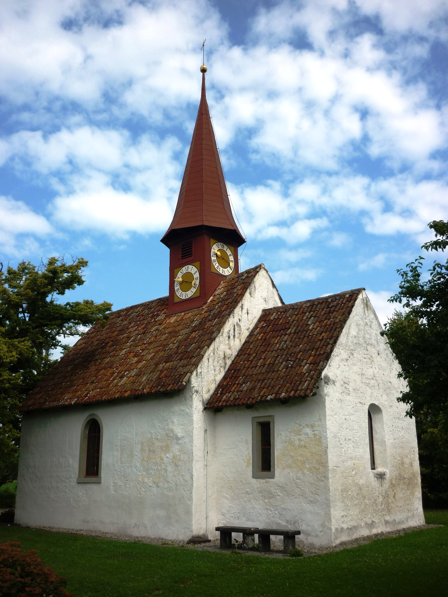 Oswald chapel, Breite, Nürensdorf, Switzerland